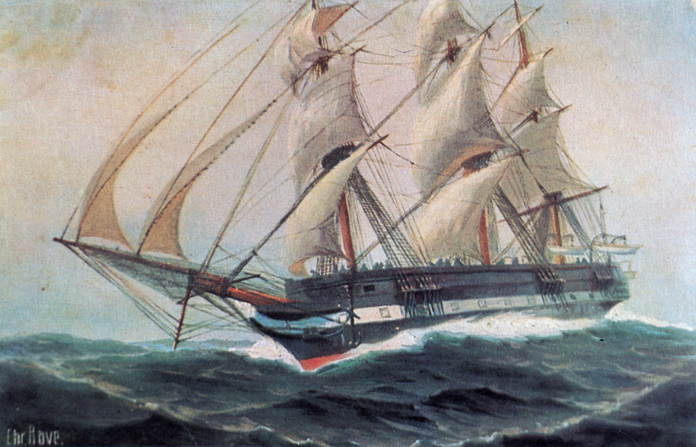 The German frigate SMS Niobe (launched 1849) painted by Christopher Rave.